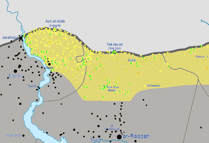 Map of the Kobanî Canton, Tell Abyad countryside, and the western Al-Hasakah Governorate, after the end of the Kurdish-launched Tell Abyad offensive (2015), on July 10, 2015.